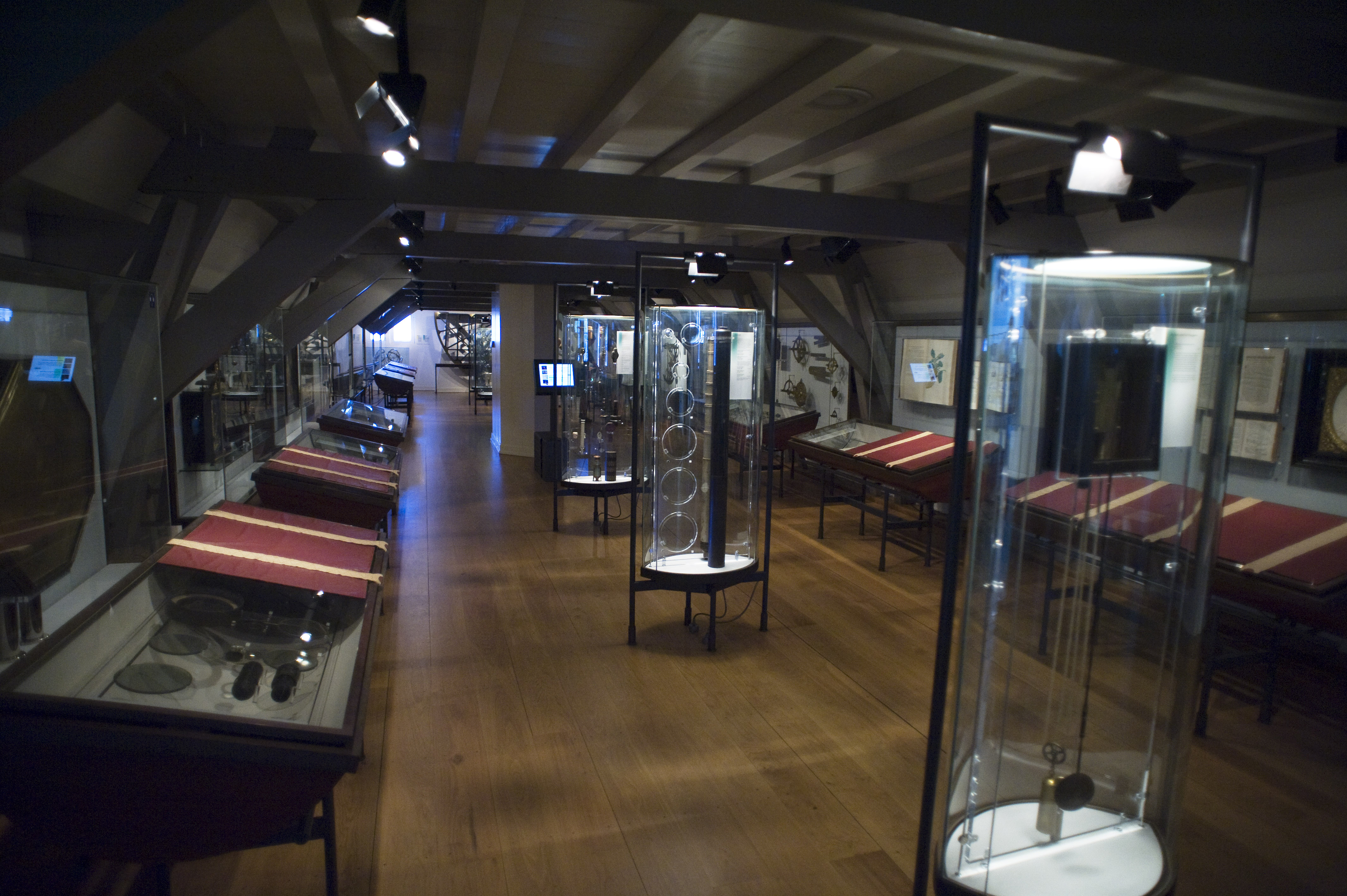 Room 3 in Museum Boerhaave (in Leiden - Netherlands) This room contains, the first pendulum clock, huygens own clock (near right), several lenses (center, left vitrine), original handwriting (covered right). Huygens planetarium left.